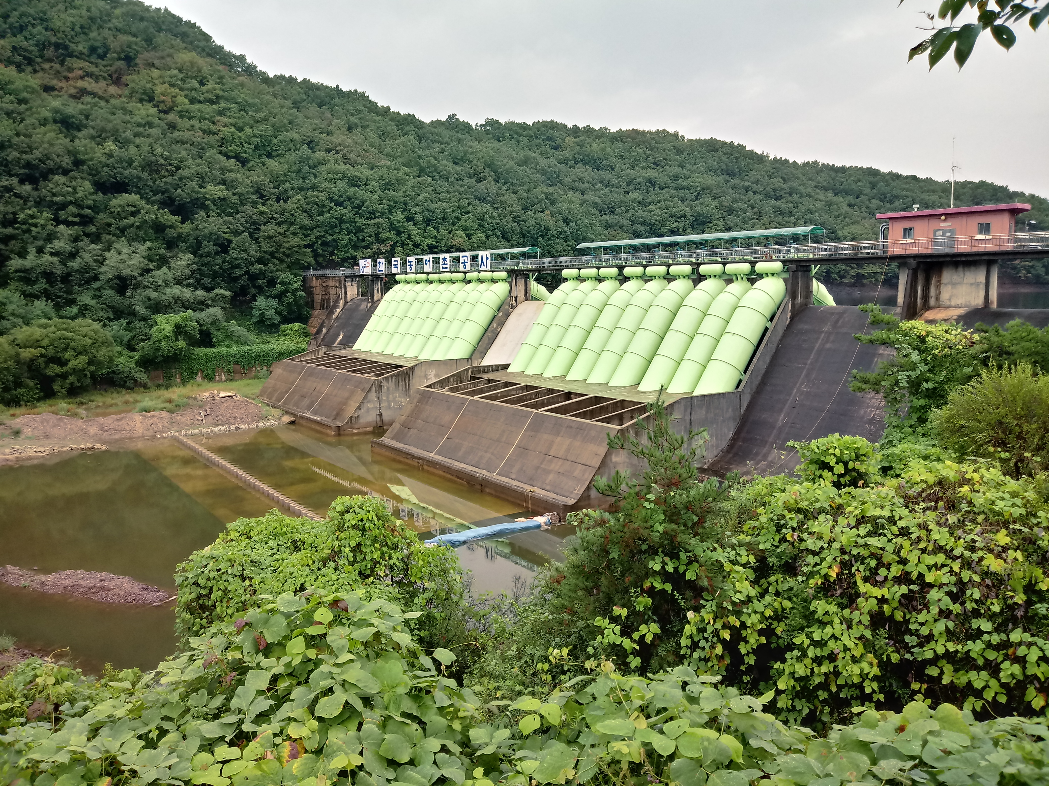 Siphon spillway of Chopyeong Dam in South Korea